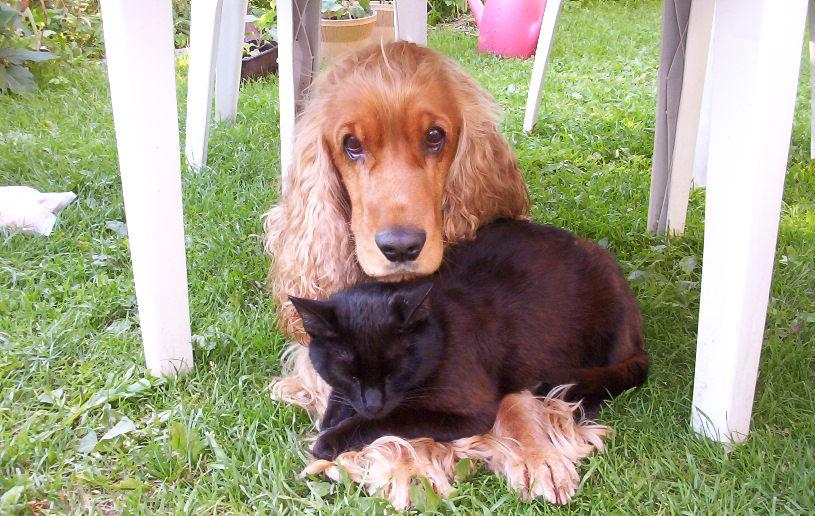 English Cocker Spaniel and cat